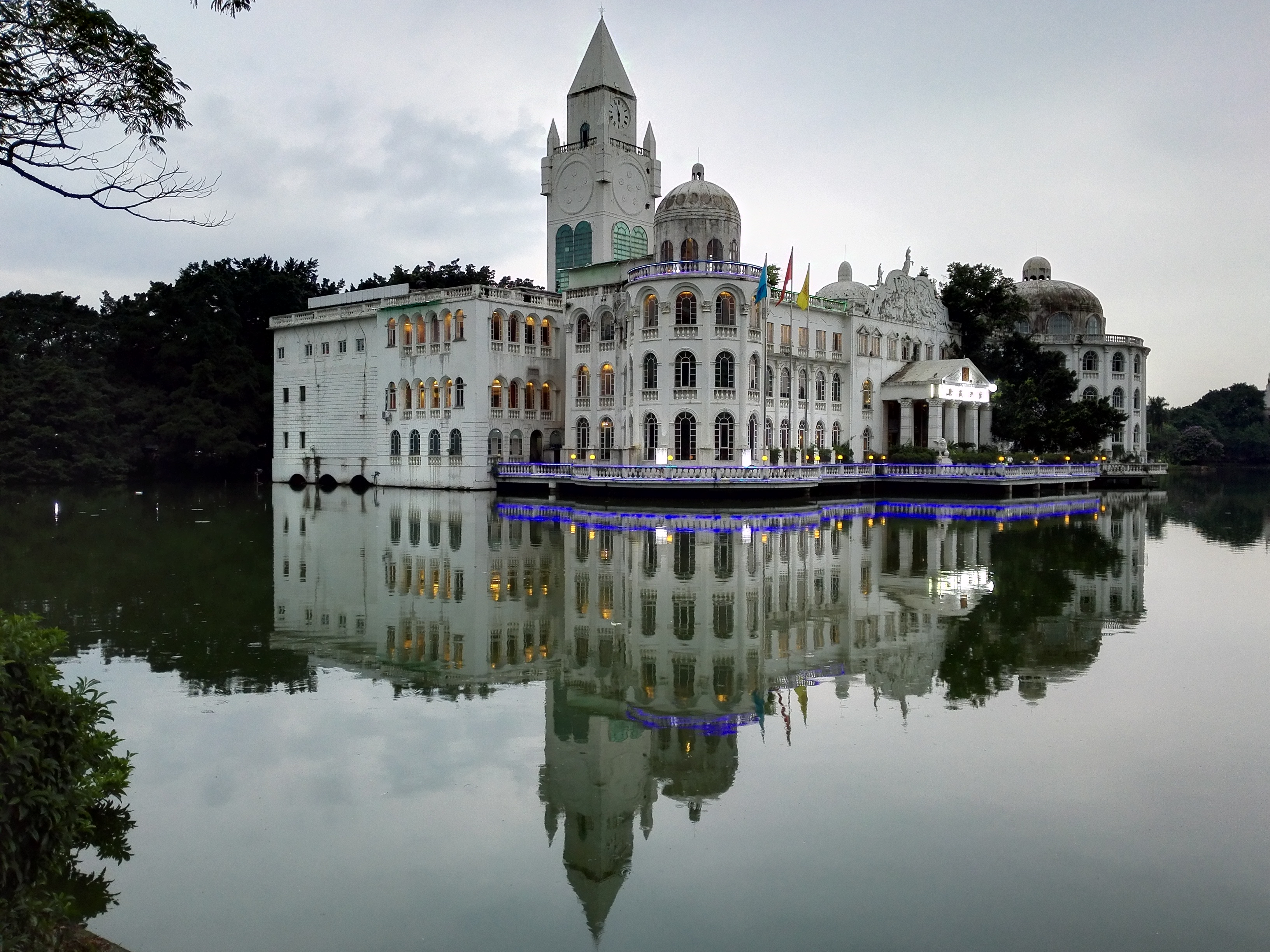 A unique building, dubbed the White House, in Lau Fa Lake Park, Canton, Kwangtung 粵語: 廣州流花公園「白宮」